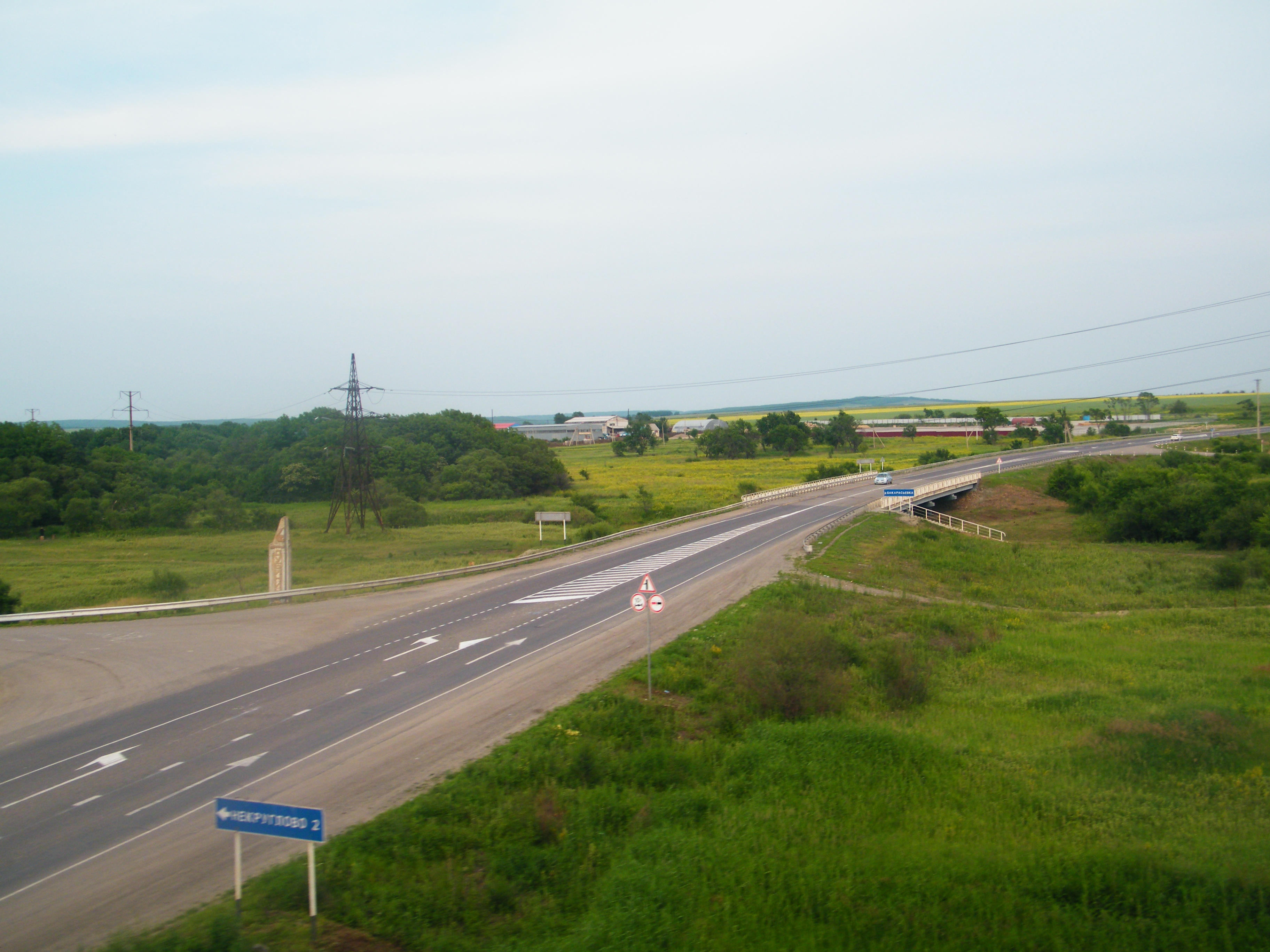 Река Бакарасьевка